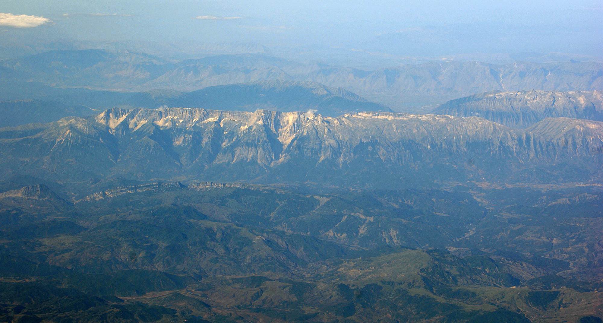 Nemërçka Mountains, Southern Albania, Eastern slopes; view around Grammos, looking southwestward over Vjose valley at Përmet and Drino vally at Dropull behind